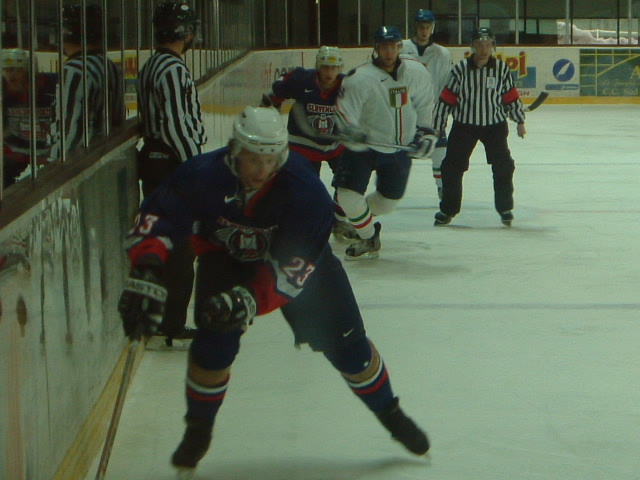 Mitja Sivic, slovenian ice hockey player